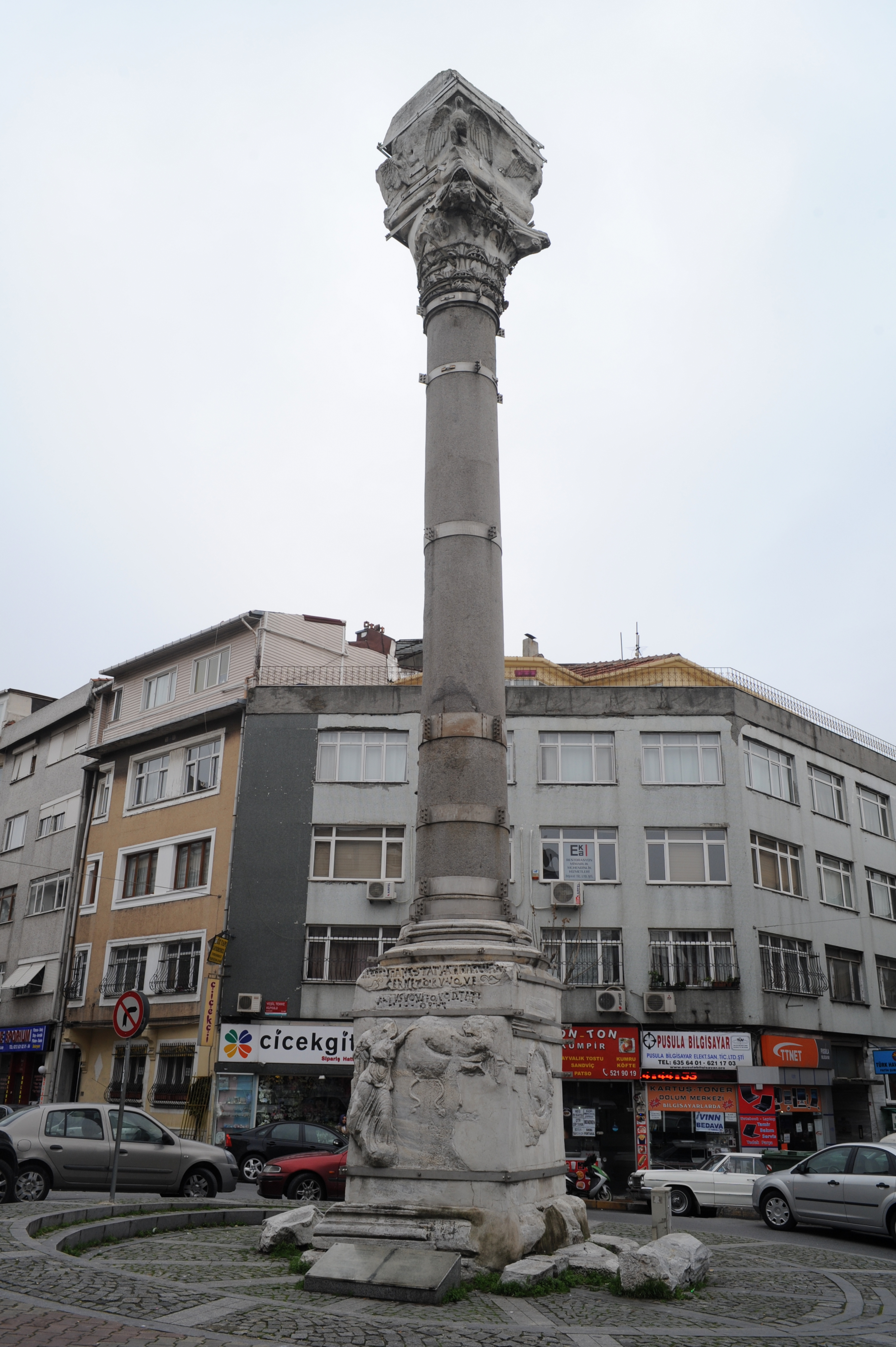 The column of Emperor Marcian, Fatih, Istanbul, Turkey.